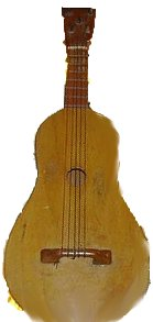 Mejorana